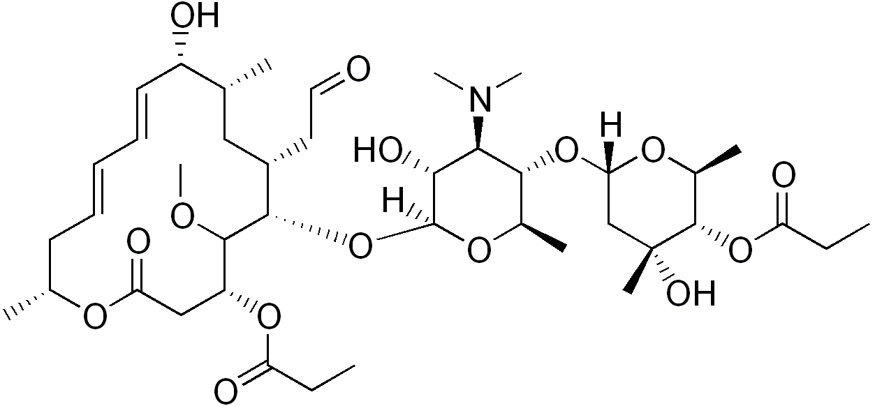 chemical structure of midecamycin